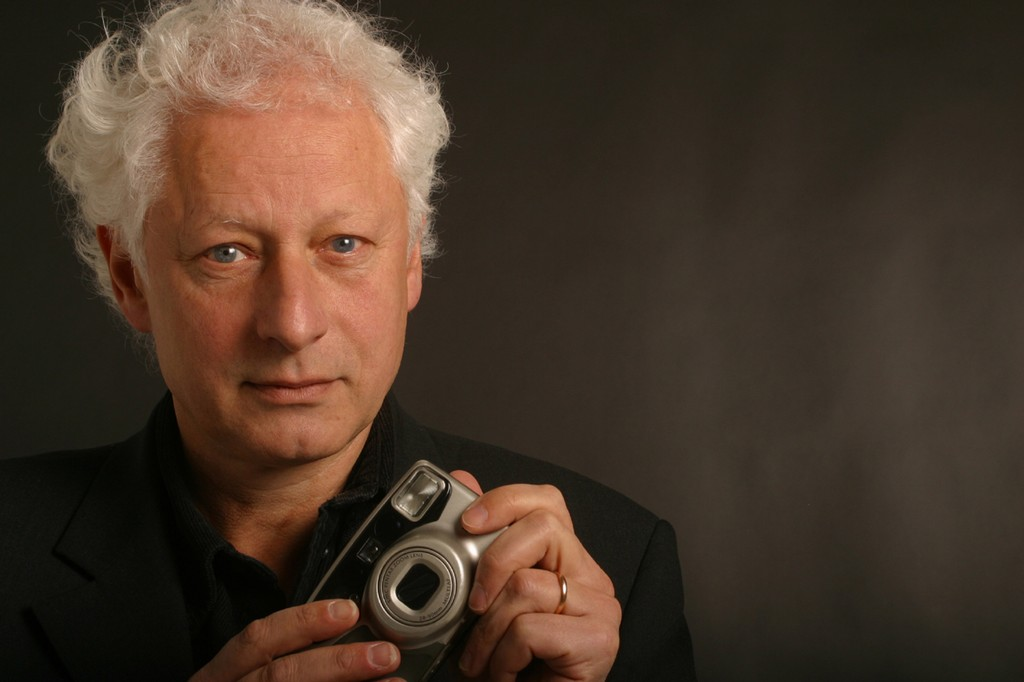 Picture of Robert Cahen